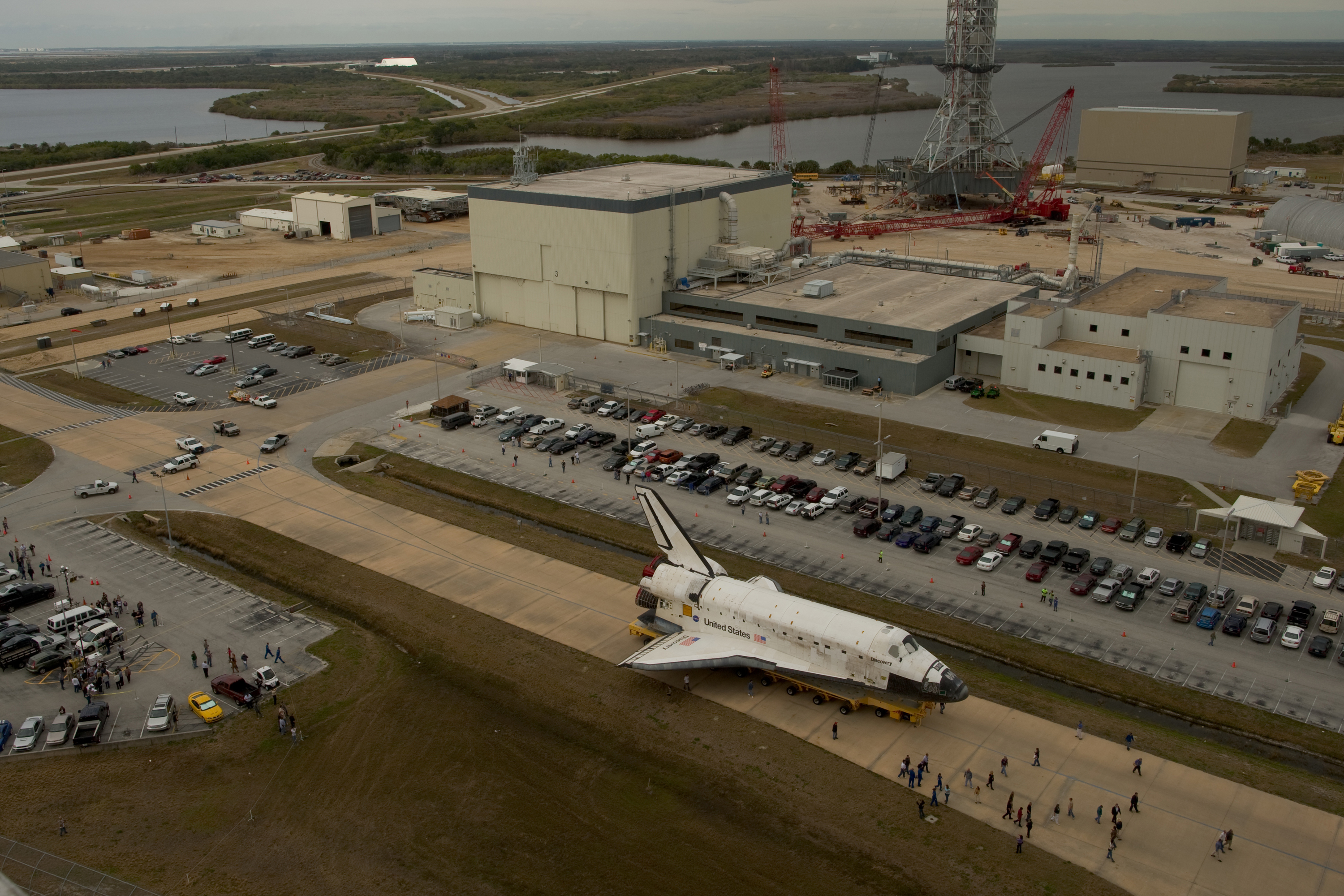 At NASA's Kennedy Space Center in Florida, workers accompany space shuttle Discovery as it is moved from Orbiter Processing Facility-3 to the Vehicle Assembly Building, or VAB. In the VAB, Discovery will be lifted into a high bay where it will be mated to its external tank and solid rocket boosters. The seven-member STS-131 crew will deliver the Multi-Purpose Logistics Module Leonardo, filled with resupply stowage platforms and racks, to the International Space Station aboard space shuttle Discovery. Work to attach a spare ammonia tank assembly to the station's exterior and return a European experiment from outside the station's Columbus module will be conducted during three spacewalks. STS-131, targeted for launch on April 5, will be the 33rd shuttle mission to the station and the 131st shuttle mission overall